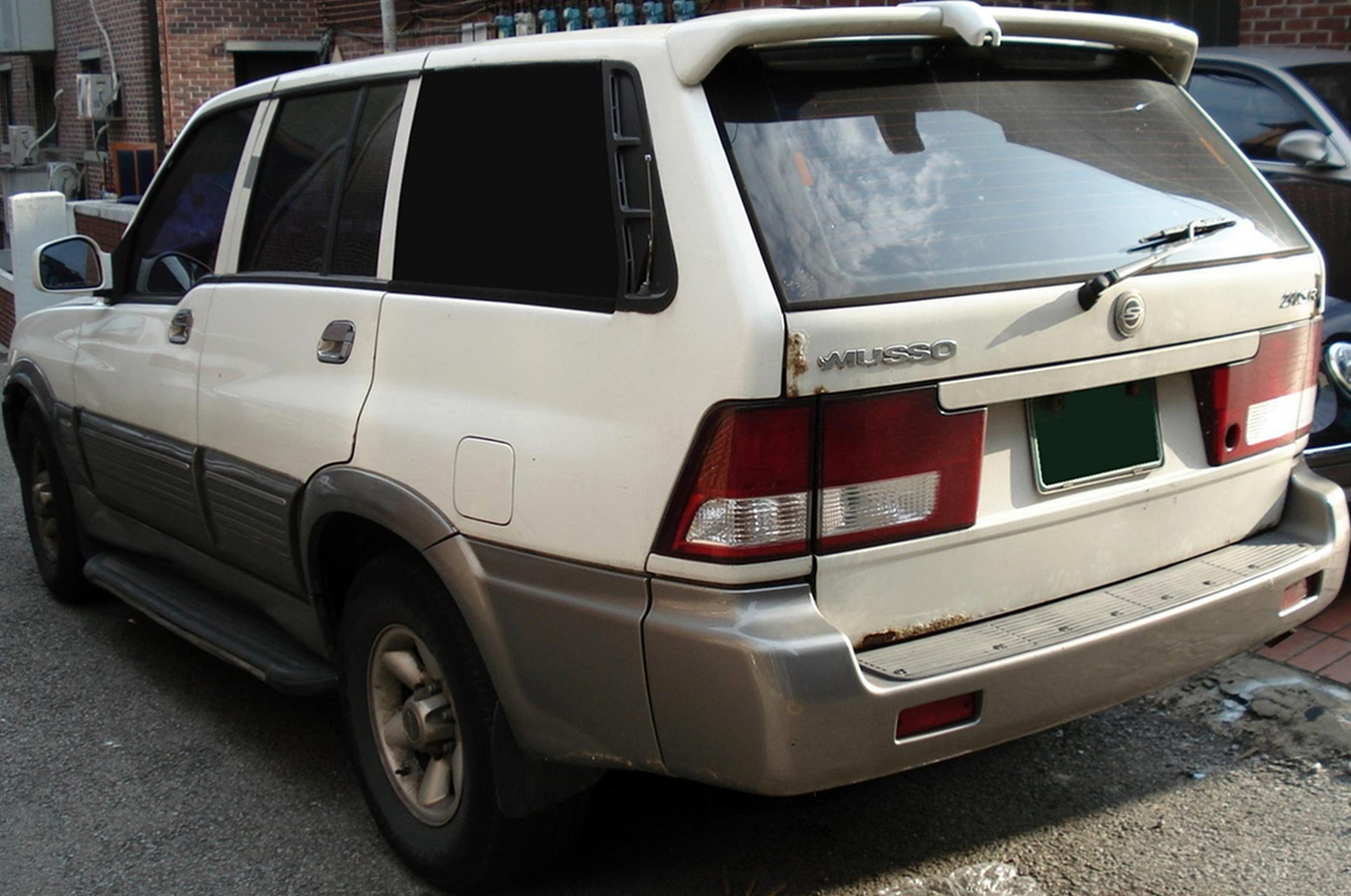 SsangYong New Musso